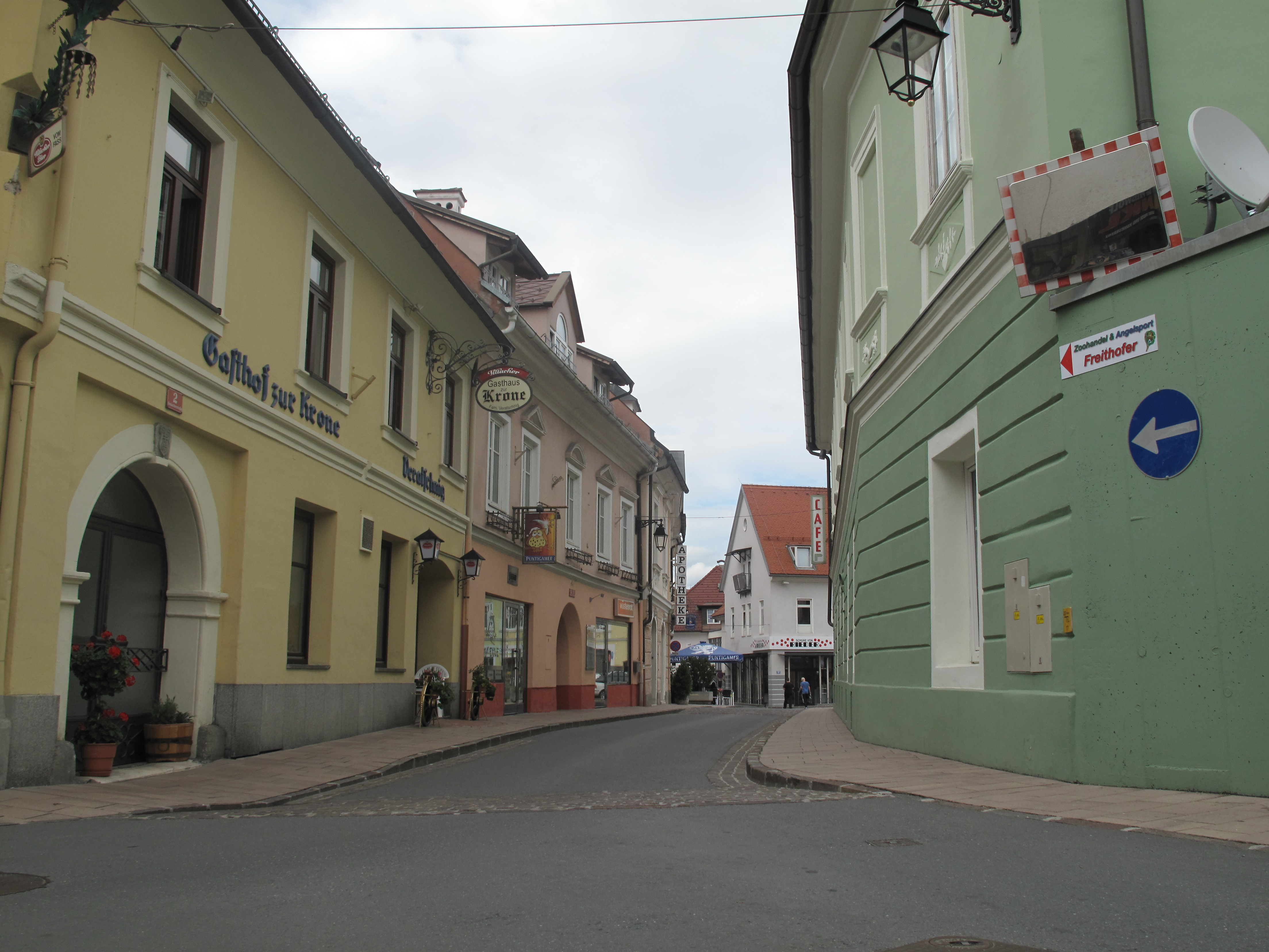 Feldkirchen, view to a street